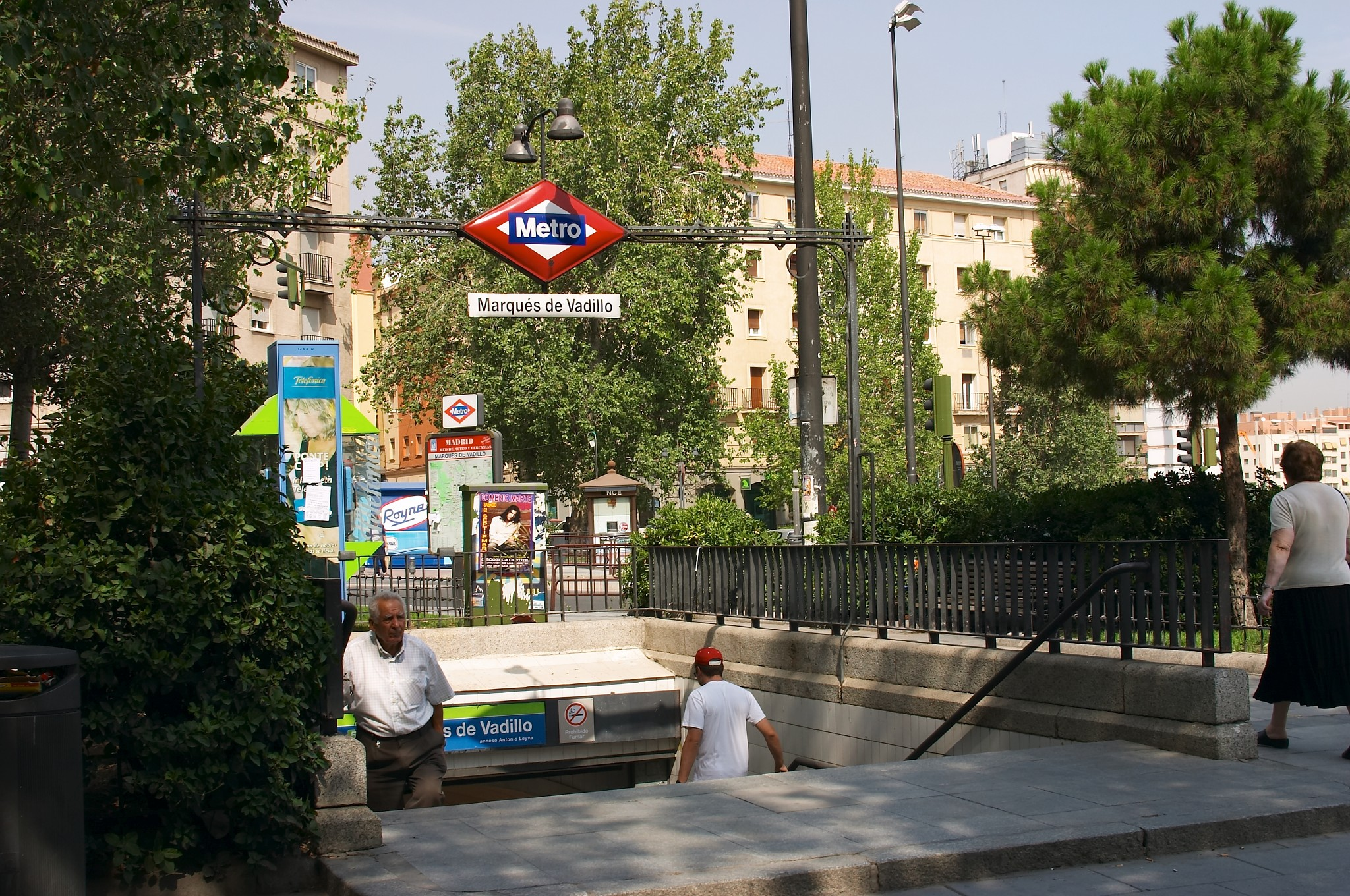 Madrid Metro, Marqués de Vadillo station.